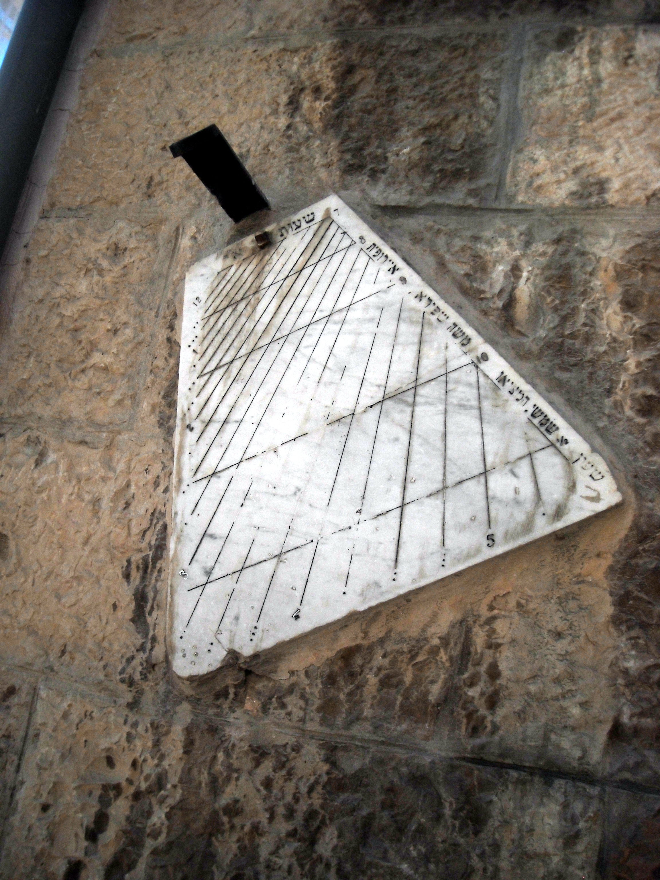 Jerusalem, Sha'arei Hesed, 5 Yesha'ayahu Bar Zakai street (corner of HaShla), Ha-Gra Synagogue.